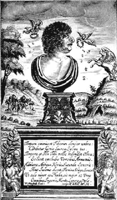 Robert Herrick: Hesperides. Dedication page of the book, with illustration of Herrick as if a statue Tempora cinxisset foliorum densior umbra: Debetur genio laurea sylva tuo. Tempora et illa tibi mollis redimisset oliva; Scilicet excludis versibus arma tuis. Admisces antiqua novis, jucunda severis: Hinc juvenis discat, foemina, virgo, senex. Ut solo minores Phaebo, sic majores unus Omnibus, ingenio, mente, lepore, stylo.